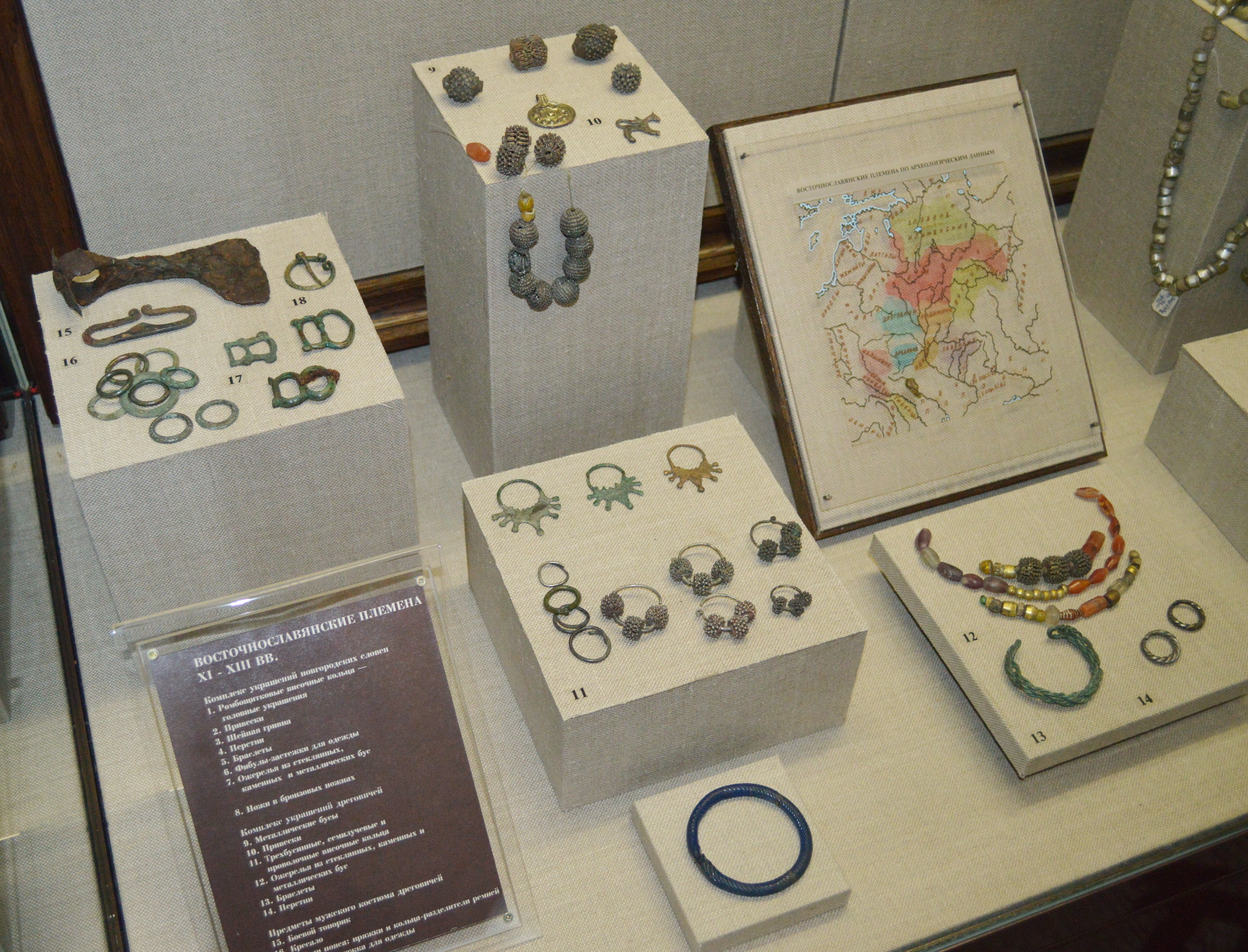 Artefacts of dregoviches, 11-13 c. Battle axe, fire striker, male and female costume and jewellery decorations. State Historical Museum of Russia